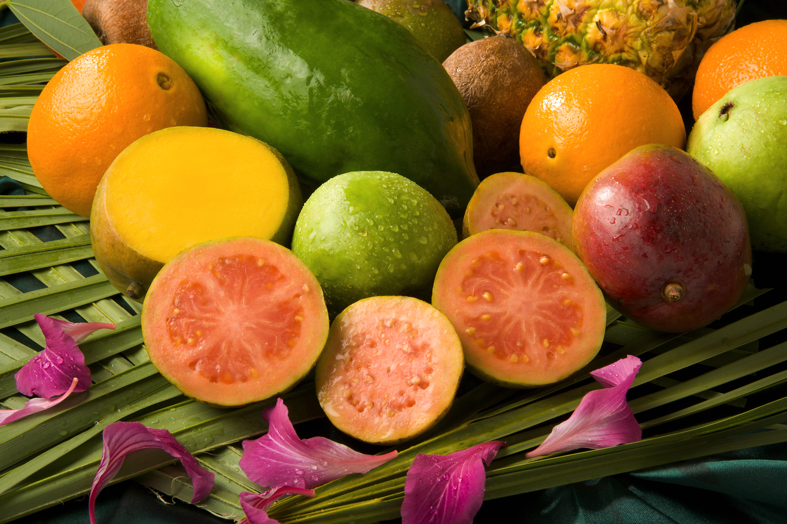 Guava, the juicy, pink, sliced fruit in the center, is high in antioxidants.